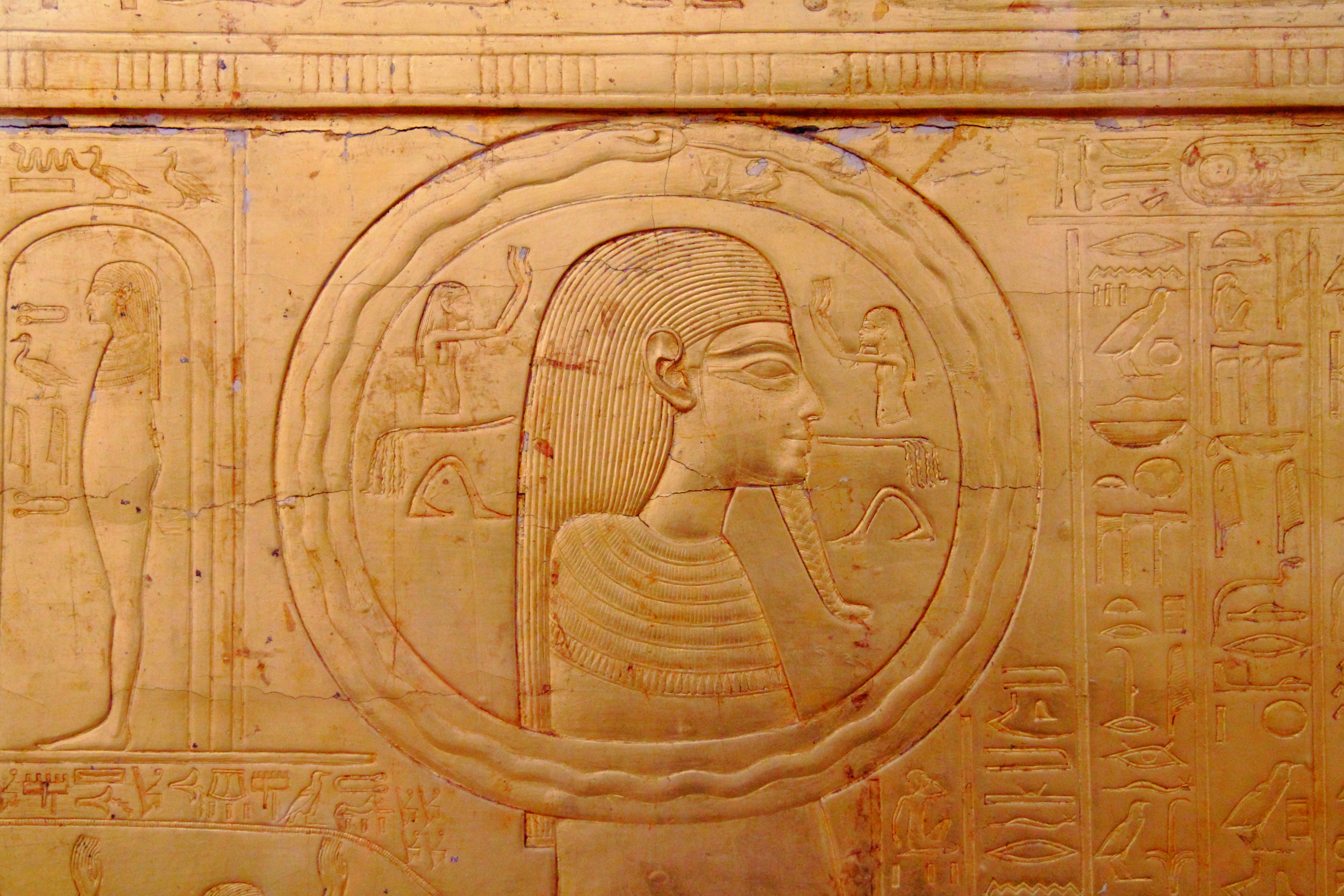 Egyptian Museum, Cairo: Material from the tomb treasure of king Tutankhamun, 18th dynasty, New Kingdom of Egypt